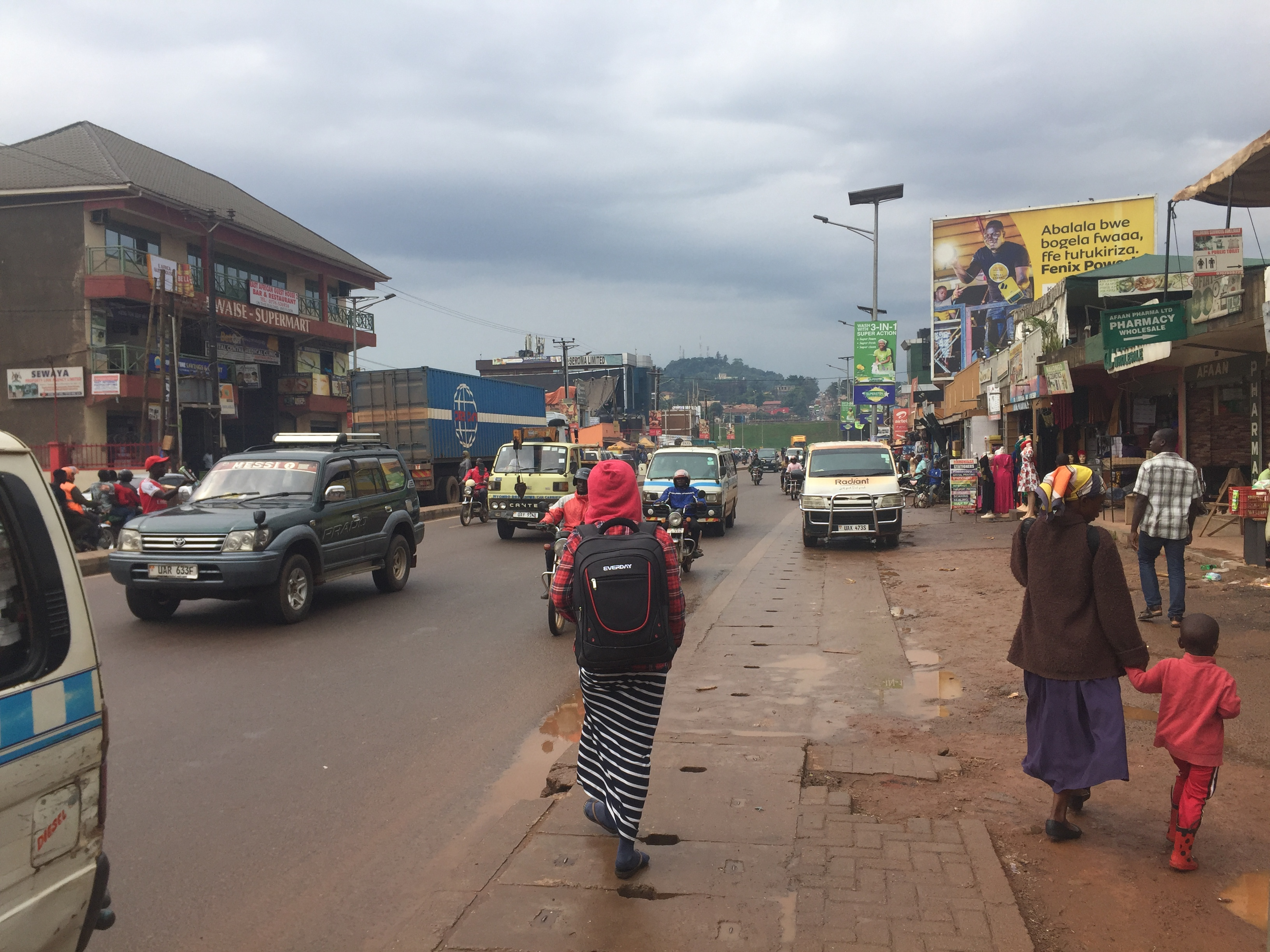 MOBILITY of People This is an image with the theme "Africa on the Move or Transport" from: Uganda